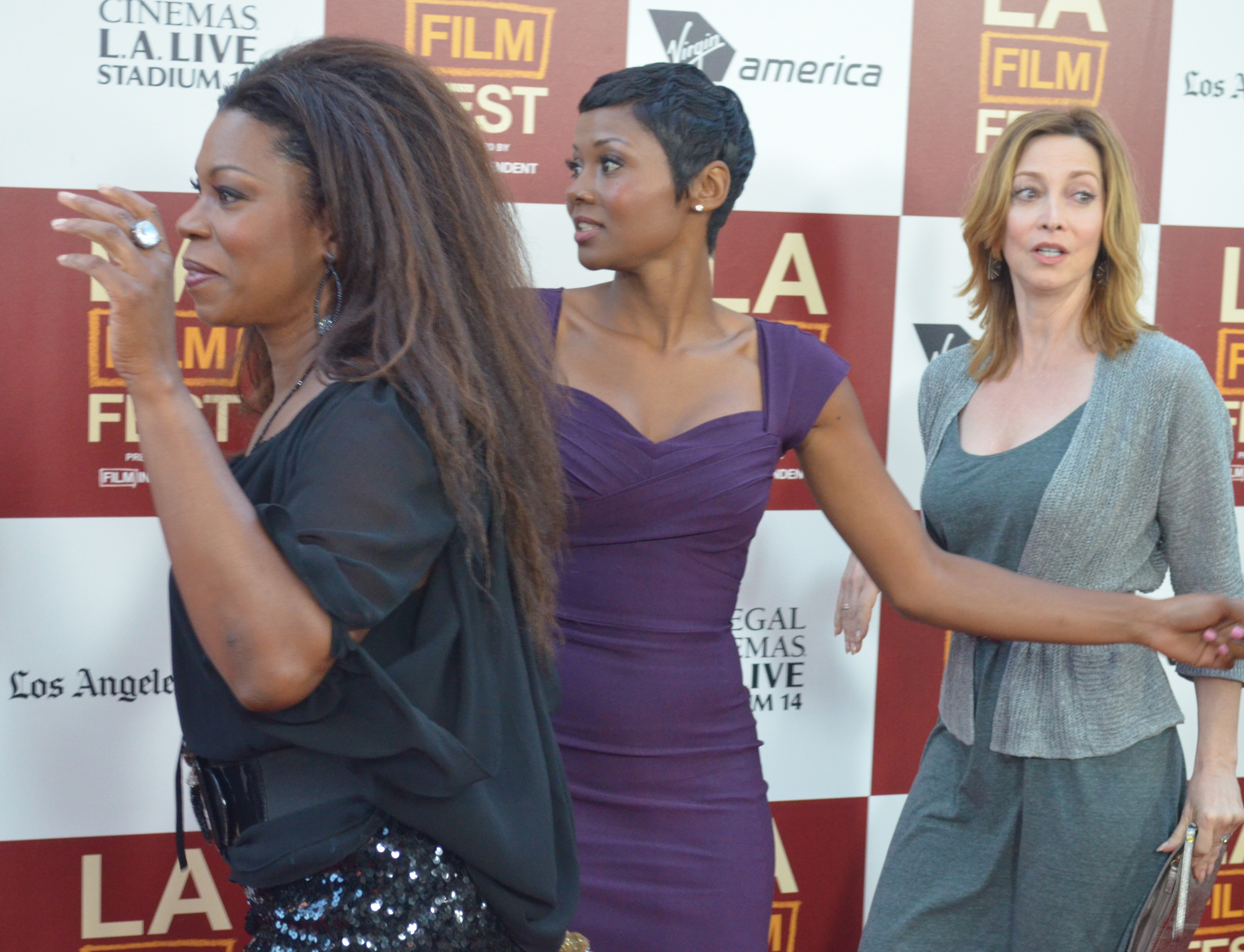 Middle of Nowhere - Sharon Lawrence, Emayatzy Corinealdi and Lorraine Toussaint